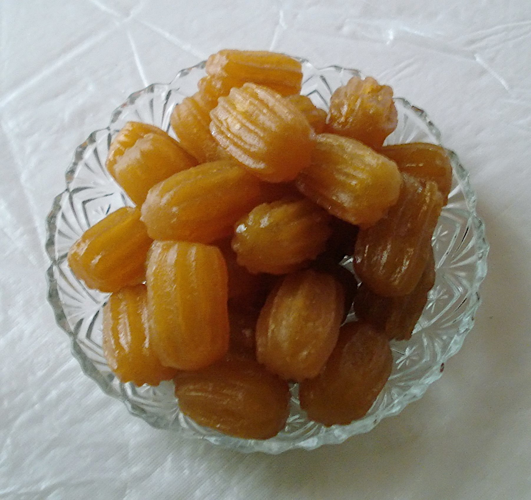 Tulumba dessert, a kind of dessert from Turkish cuisine